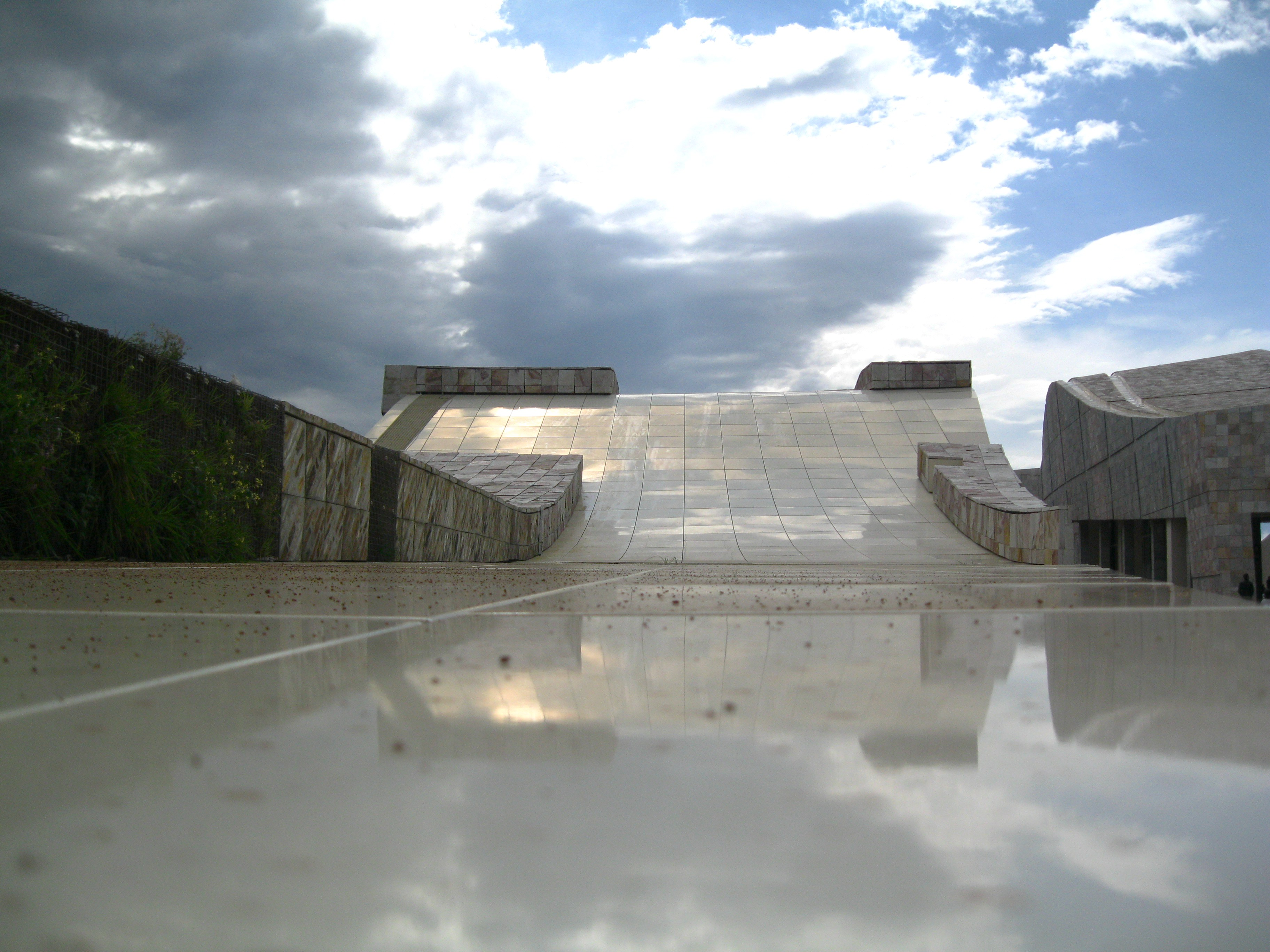 City of Culture ("Cidade da Cultura") in Santiago de Compostela, Galicia, Spain.